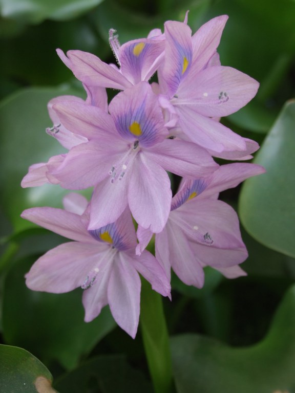 Eichhornia crassipes